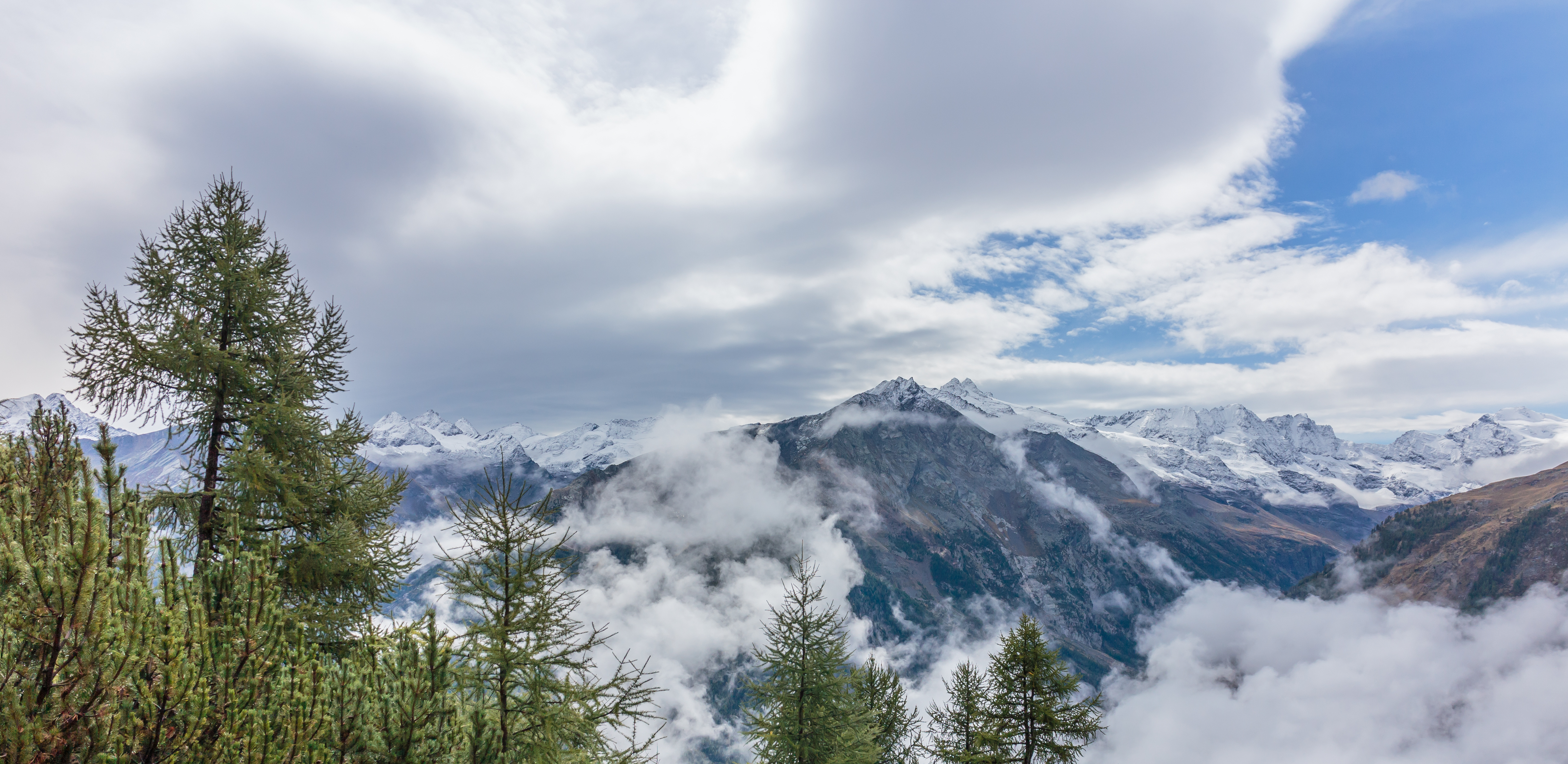 Mountain hike of Gimillan (1805m.) At Colle Tsa Sètse Cogne Valley (Italy). View of the surrounding Alpine peaks of Gran Paradiso.